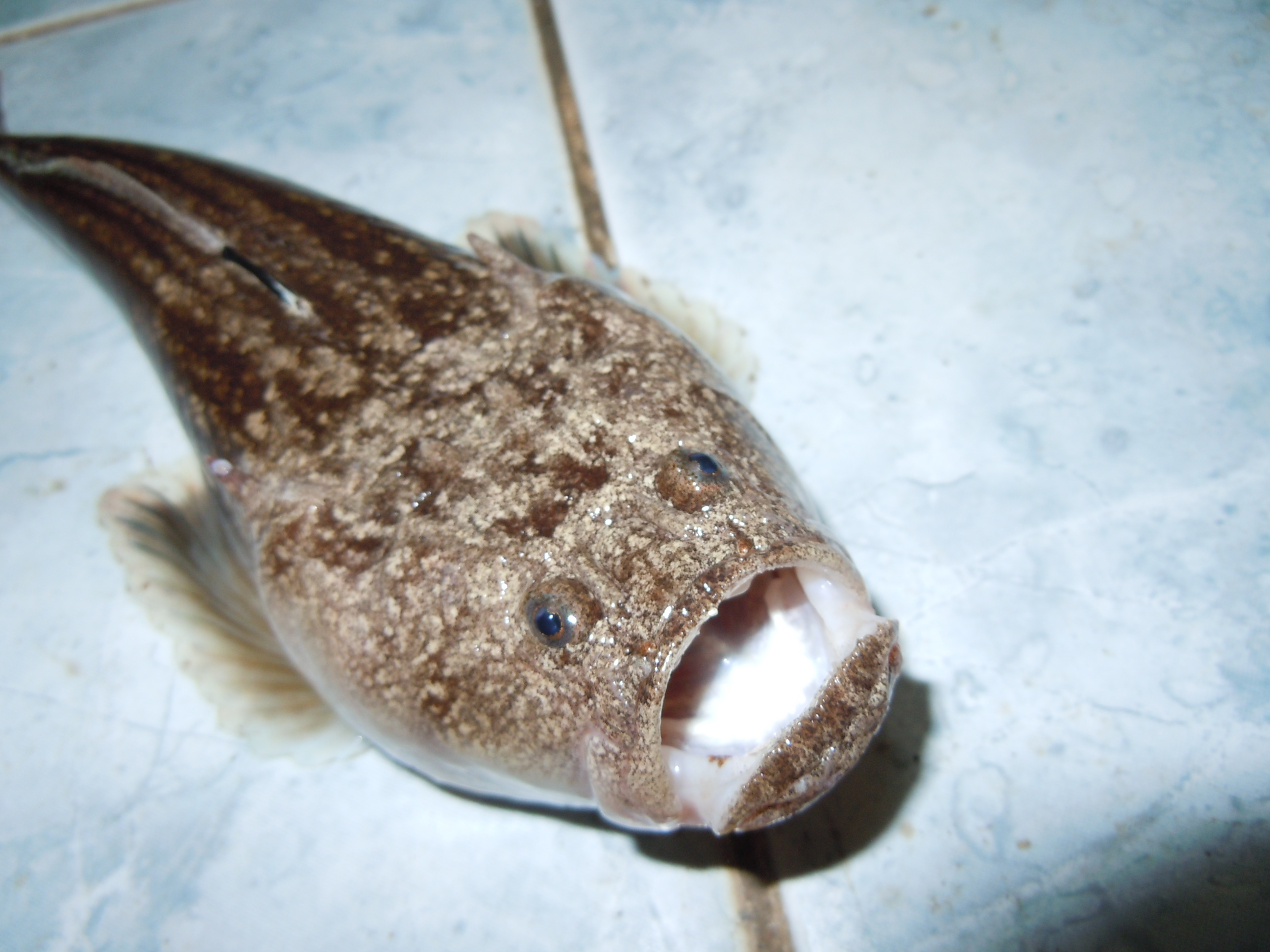 The head of the Atlantic stargazer (Uranoscopus scaber) from the Black Sea near Gelendzhik, Caucasus